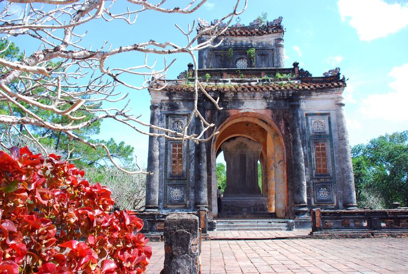 Tomb of Emperor Tự Đức.